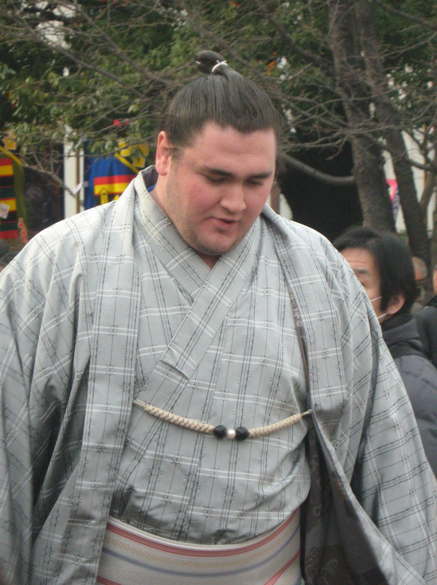 This is a photograph I took at a recent sumo tournament that I release the rights of. User:FourTildes 07:49, 31 May 2008 . . FourTildes . . 1,498×2,008 (1.39 MB)